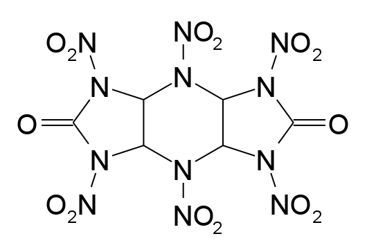 Structure of HHTDD